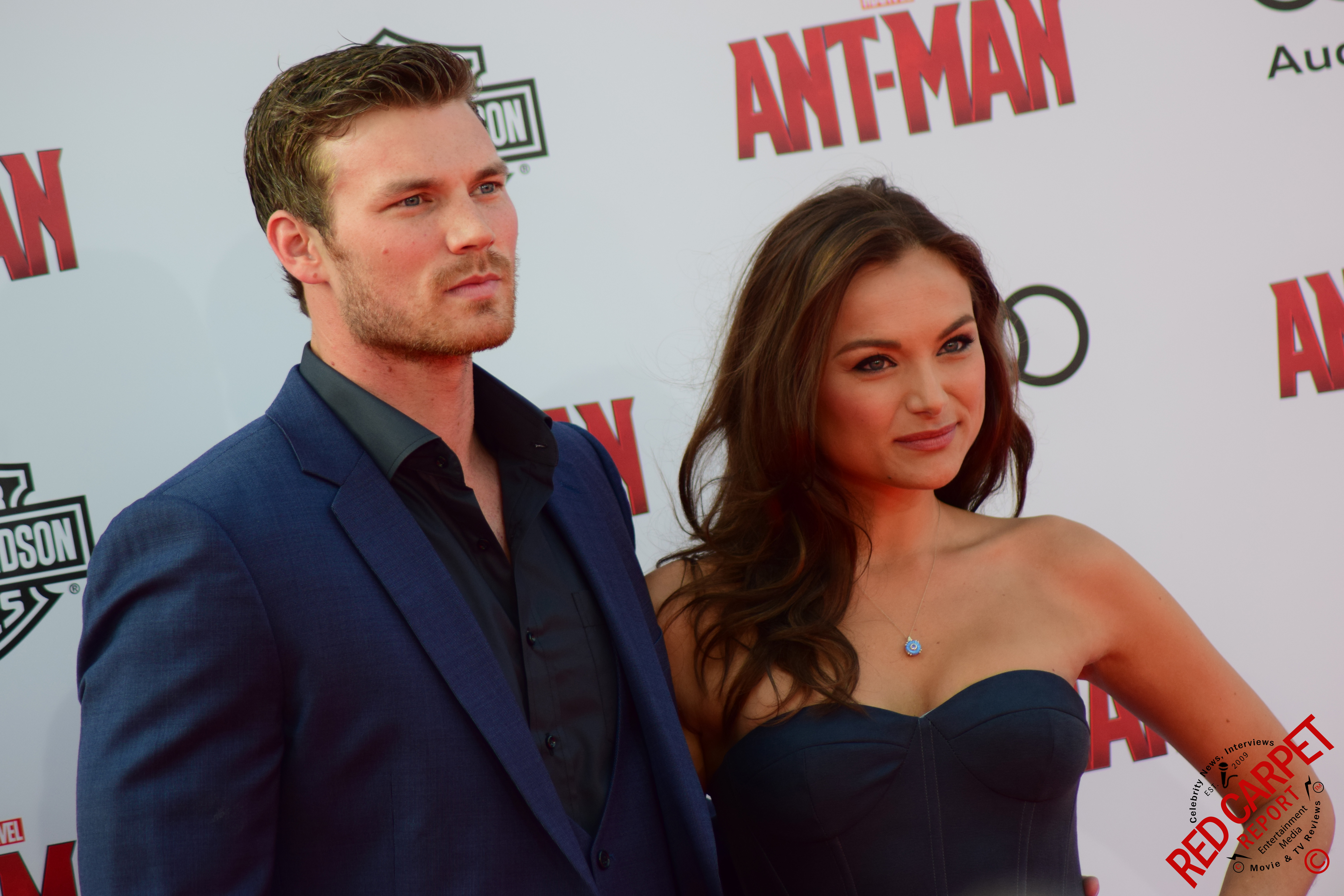 Mingle Media TV and our Red Carpet Report team were on hand for Marvel’s "Ant-Man” World Premiere at the Dolby Theatre in Hollywood.